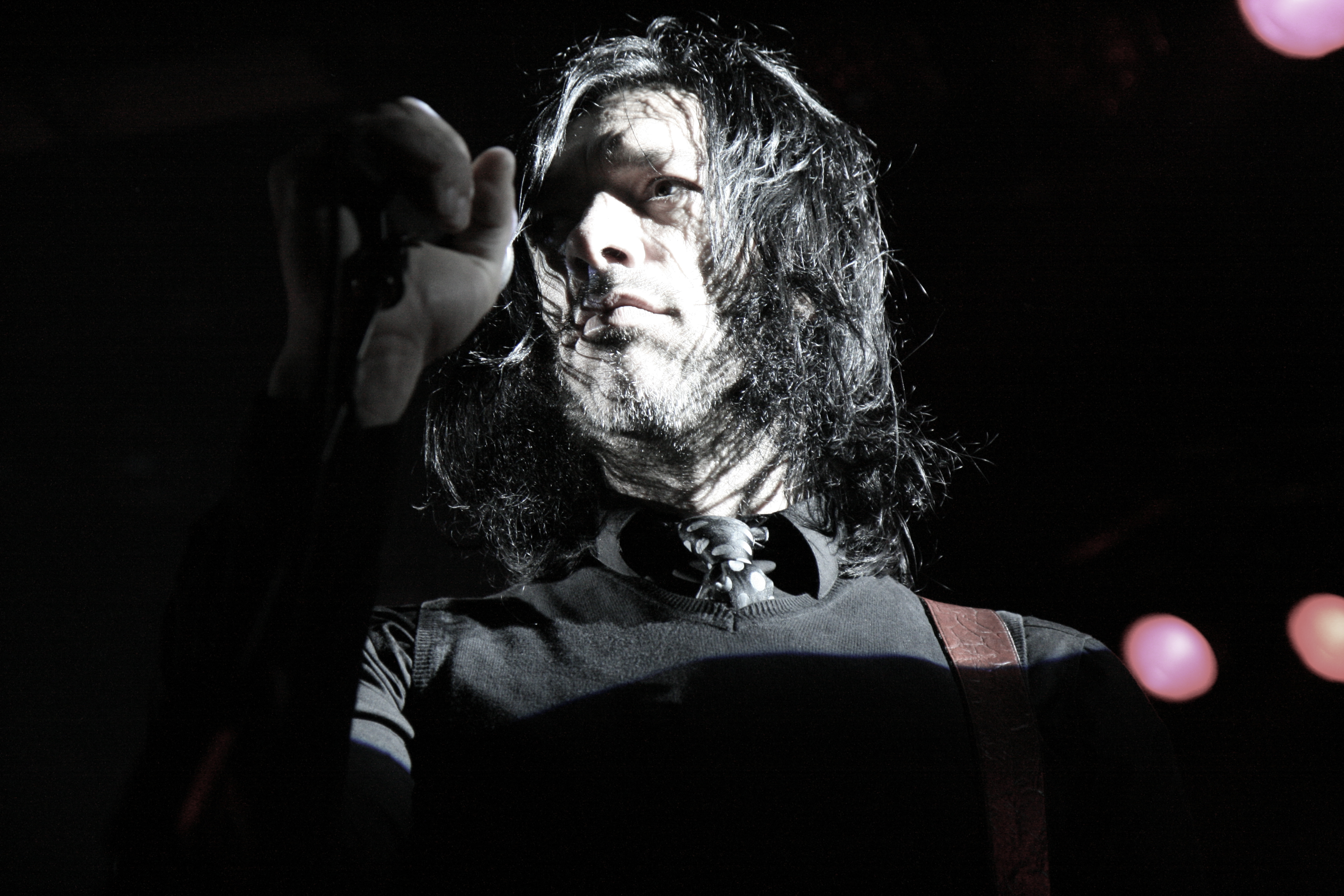 Brian O'Connor from the Eagles of Death Metal playing the Commodore Ballroom on July 20th 2000